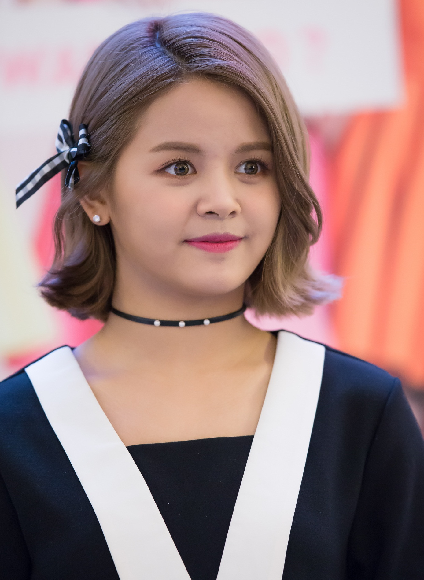 160312 Yeouido Fansign CLC Sorn